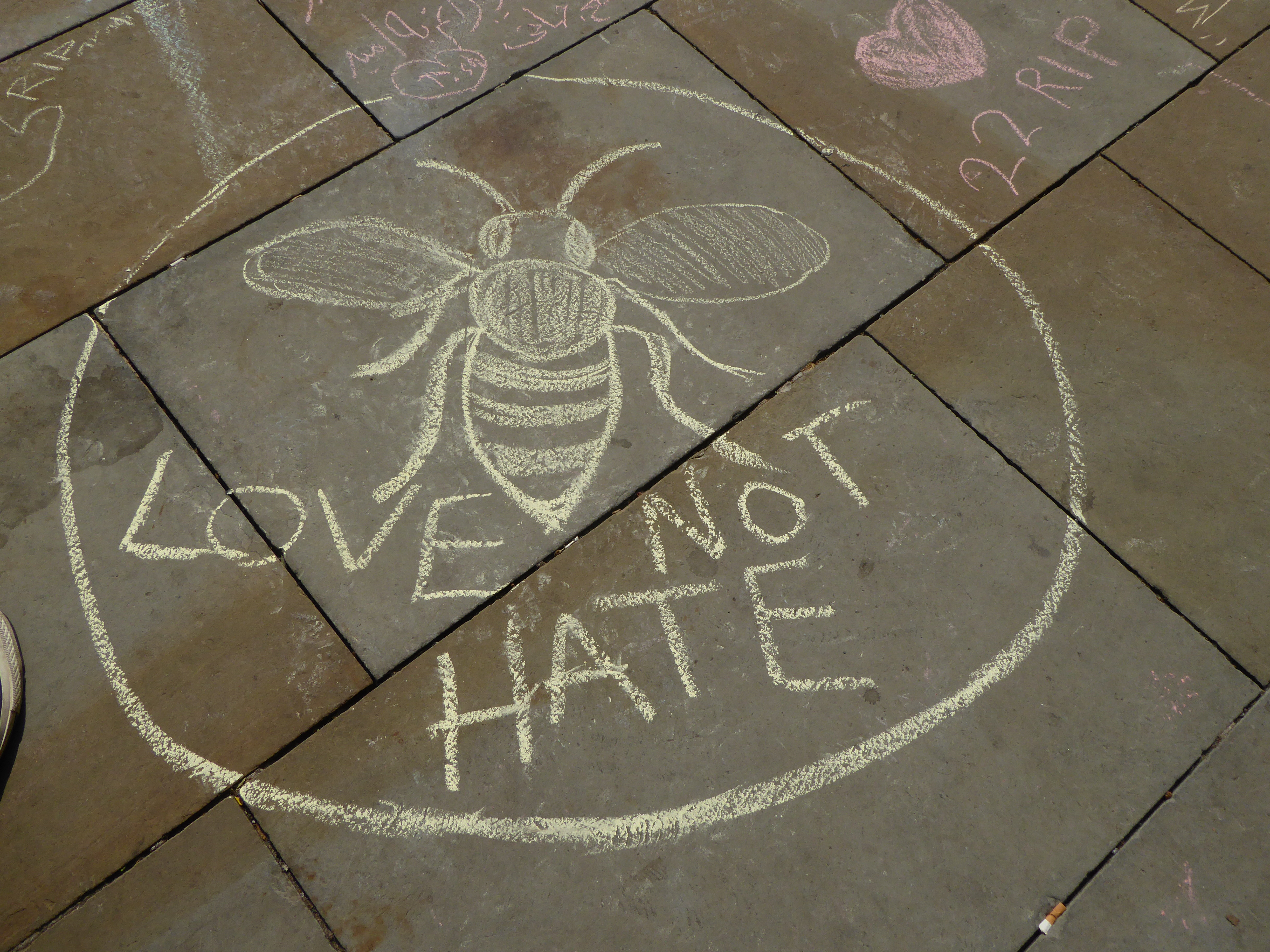 Tributes and memorials at St Ann's Square,Manchester, England, re Manchester Arena bombing, May 2017